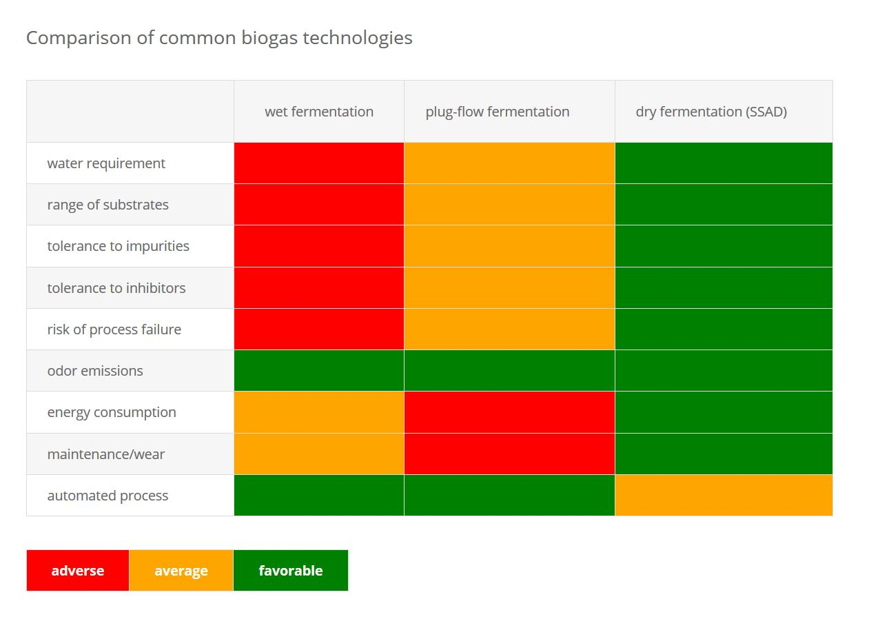 Comparison of common biogas technologies: wet fermentation vs.plug-flow fermentation vs. dry fermentation (SSAD) ost of the biogas plants worldwide are built based on liquid-type anaerobic digestion (AD), wherein biomass (usually animal dung) and water are mixed in equal amounts to form a slurry in which the content of total solids (TS) is about 10-15%. While this model is suitable for small-scale biogas plants it becomes a challenge in large commercial plants where it necessitates the use of large quantities of fresh water every day, often in water-scare areas. Solid state digestion (SSAD), dry fermentation, as opposed to the liquid digestion described above, reduces the need to dilute the biomass before using it for digestion. SSAD can handle dry, stackable biomass with a high percentage of solids (40-60%). A SSAD plant consists of gas-tight chambers called fermenter boxes working in batch-mode that are periodically loaded and unloaded with solid biomass. Liquid digestate or percolate produced during digestion is recirculated and sprinkled on the dry biomass to ensure process continuity and stability. The solid state fermentation / dry digestion distinguishes itself by the usability of a wide range of organic input substrates, including very dry or long-fibred ones that can be digested. Contaminants or impurities within the material will not affect the process of anaerobic digestion or the plant operation. Even energy rich liquid substrates can be integrated in the process without any problems. The uncomplicated close to nature technology ensures a quick and stable degradation process. The operation of a SSAD plant is almost fully automated. Only the control, maintenance and repair work, besides charging and discharging of the fermenter boxes, has to be done manually. The solids are further composted to produce high-grade compost that is sterile if the digestion was thermophilic.